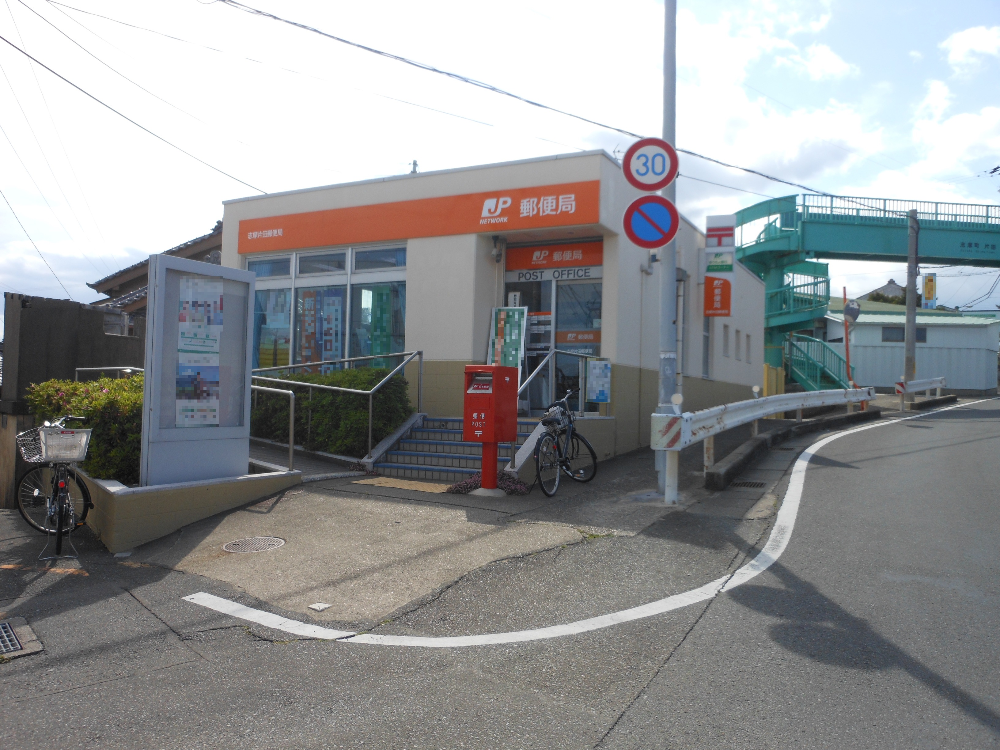 This is the Shima-Katada post office, which is located in Shimacho-Katada, Shima, Mie, Japan.